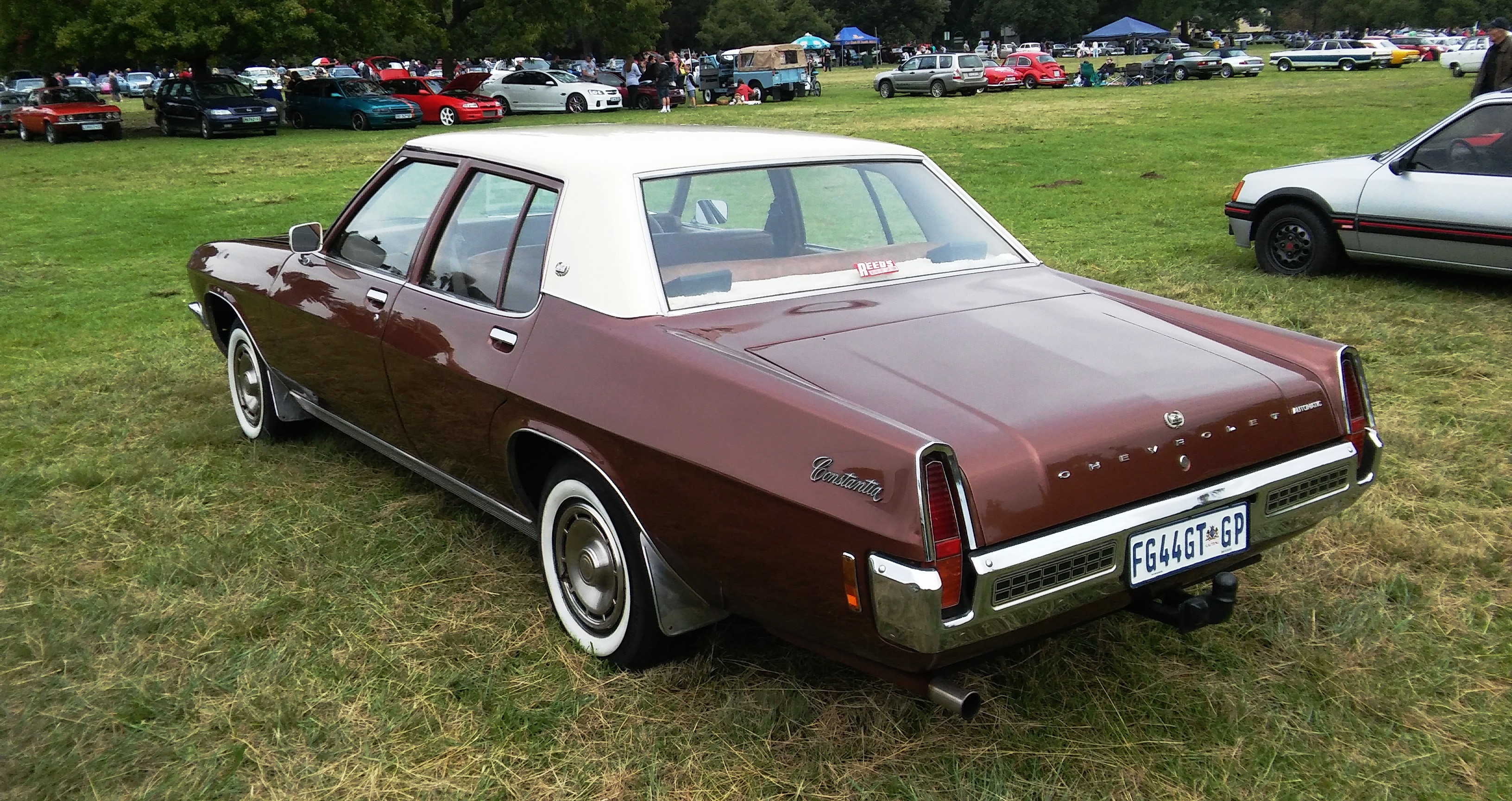 Chevrolet 1972-75 Constantia Six, AQ-Series. ap.4.18 2